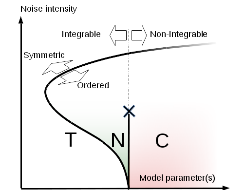 STS Phase Diagram